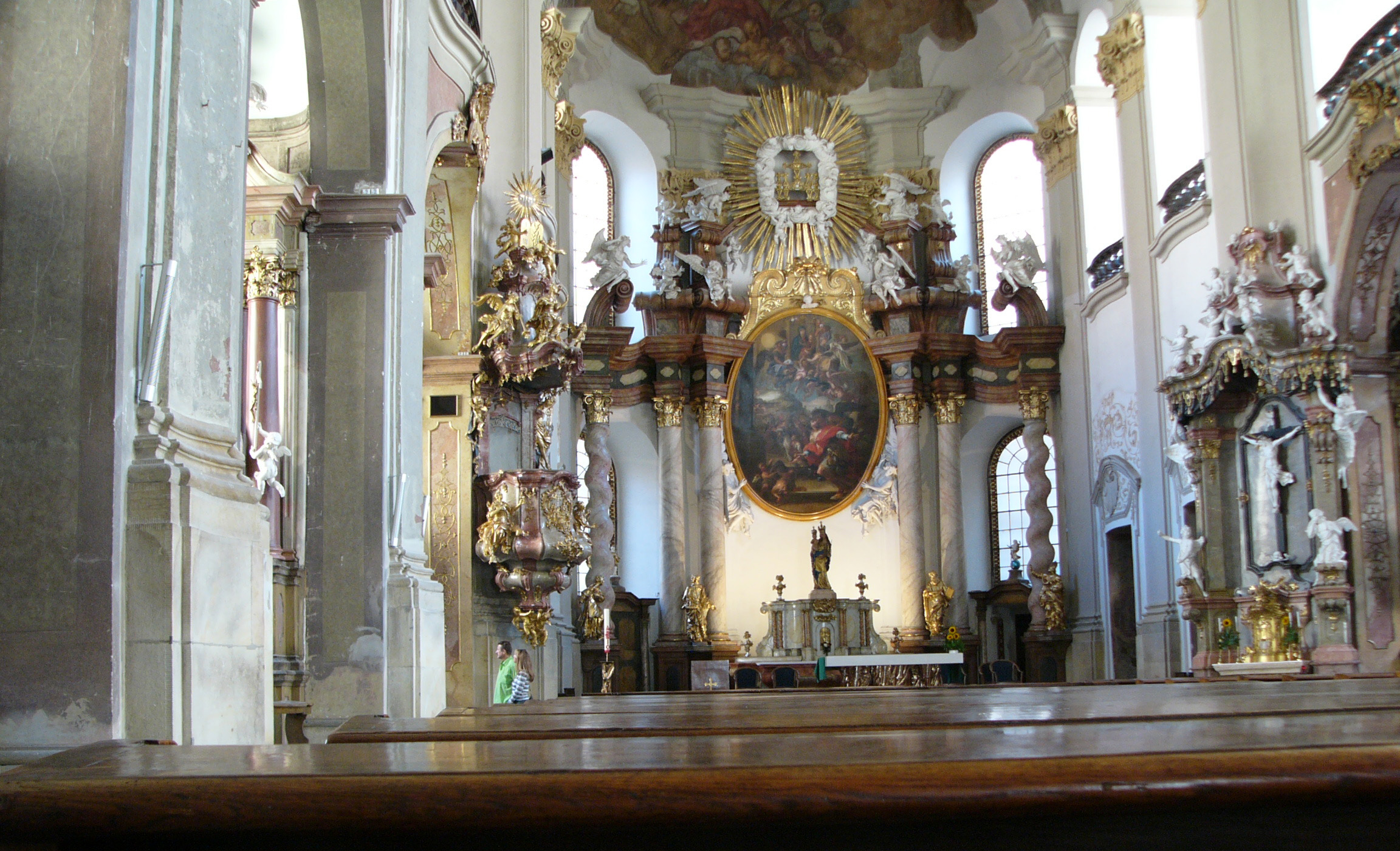 Interier of The Church of the Virgin Mary of the Snow in Olomouc (Czech Republic).